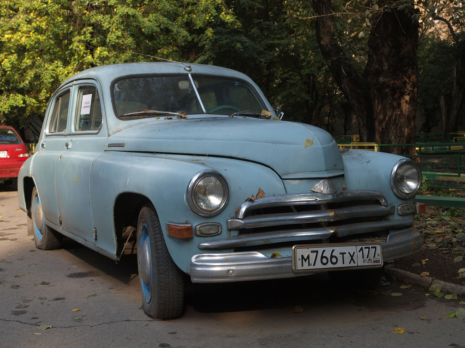 GAZ Pobeda, Moscow